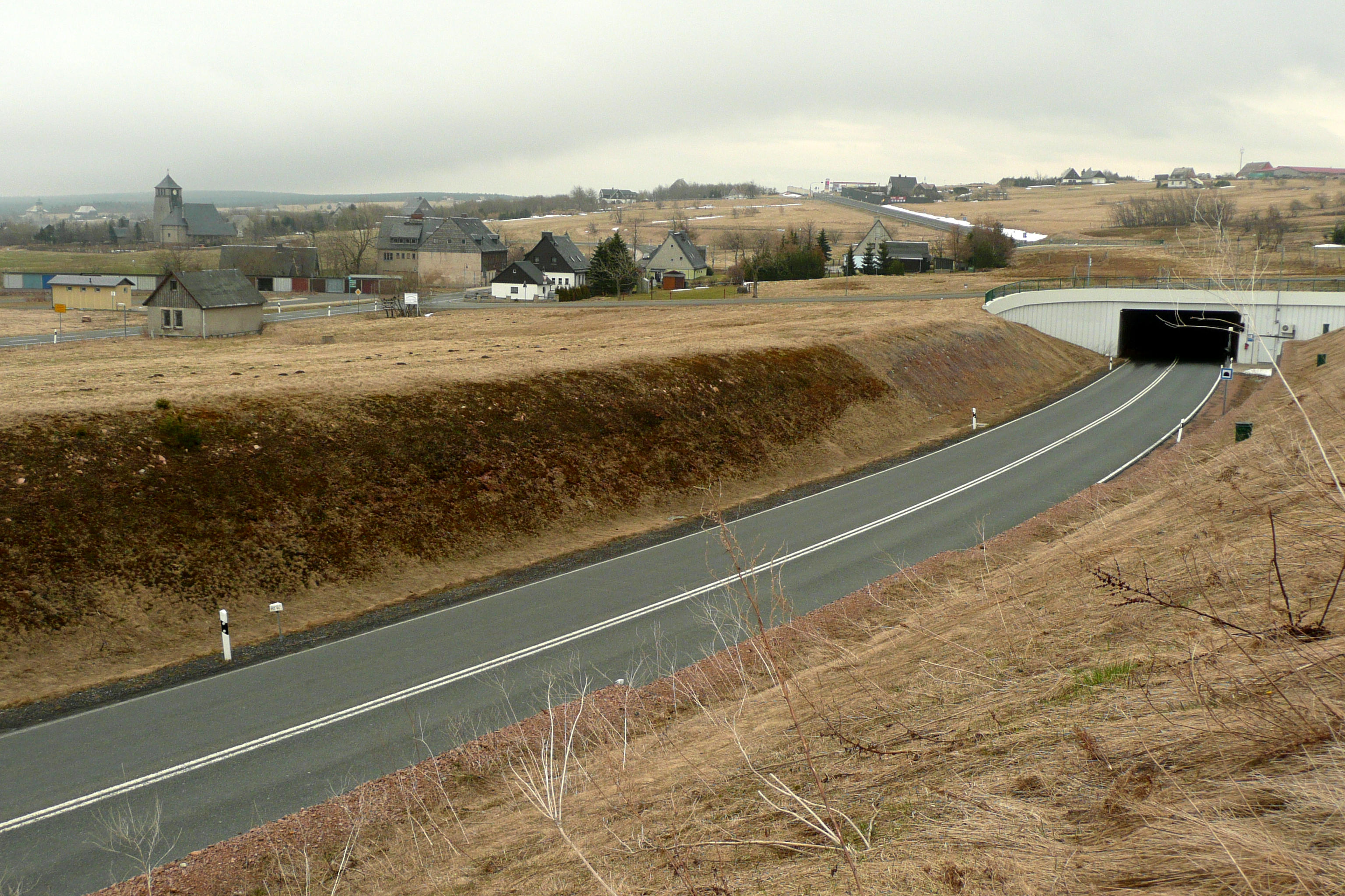 This image shows the federal highway No. 170 from Dresden to Prague in Zinnwald.